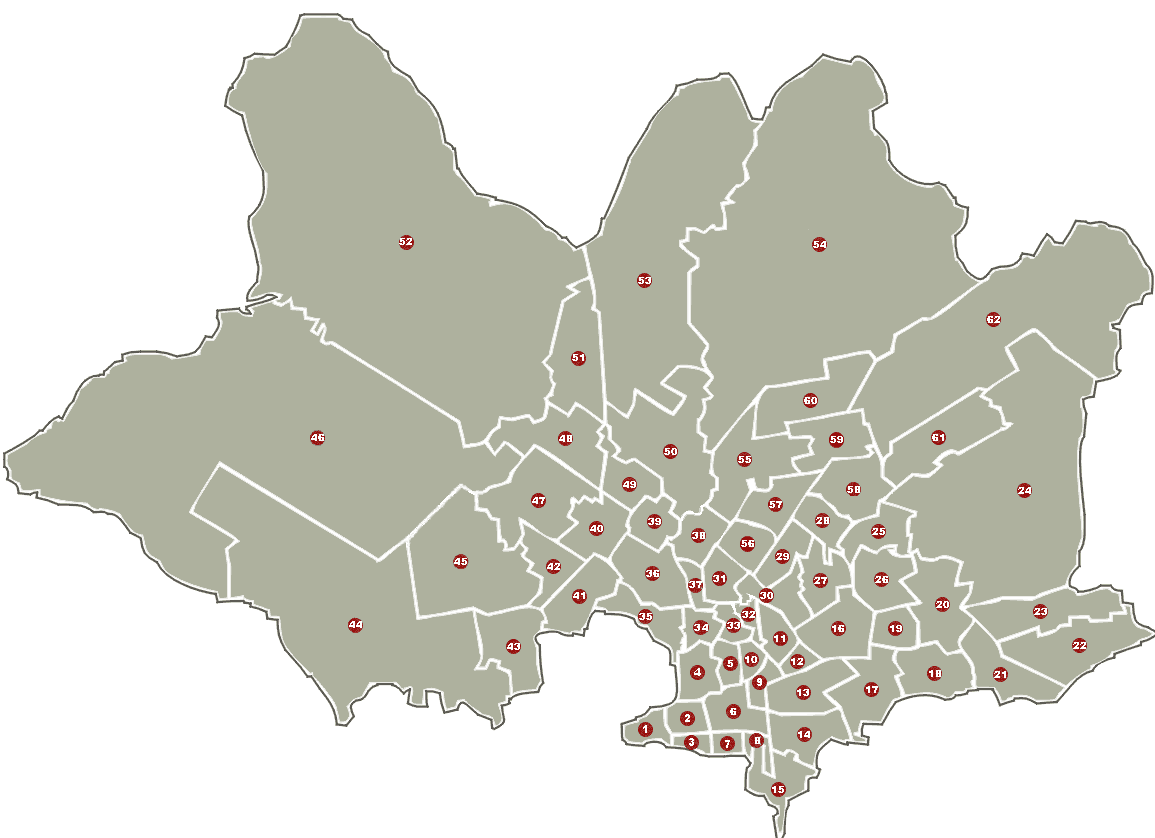 Map of Montevideo, Uruguay. Drawn by: Jordevi